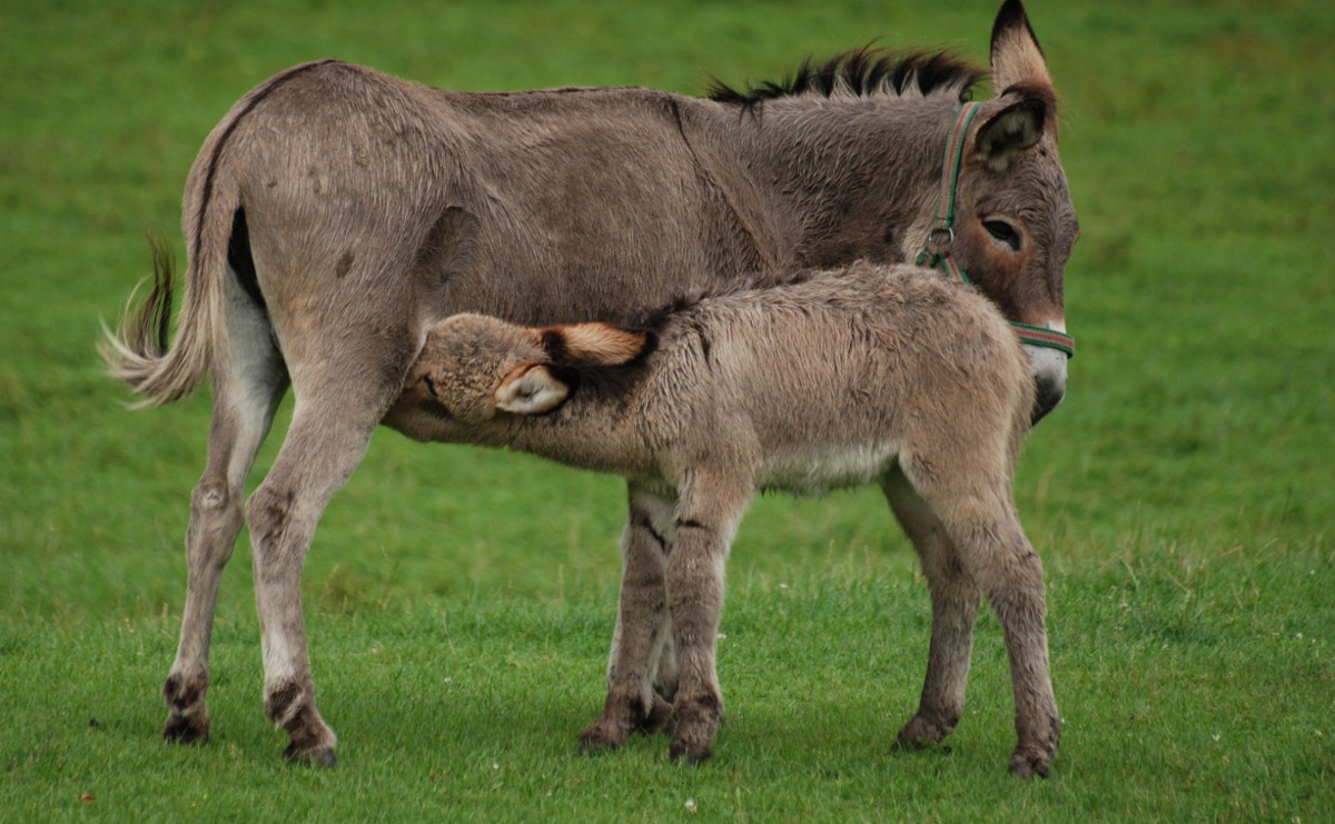 Equus_asinus_Kadzidłowo_01